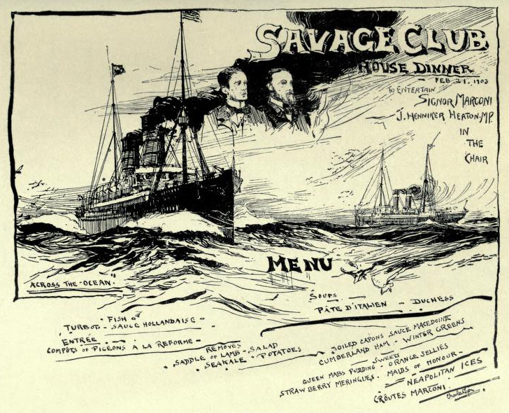 Artwork (menu for 1903 dinner of the Savage Club in London) credited in the caption to Charles Dixon (1872-1934). The artwork appears facing page 116 in 'The Savage Club : a medley of history, anecdote, and reminiscence' by Aaron Watson (1850-1909), published in 1907, in the UK by T. Fisher Unwin. The book is at the Internet Archive